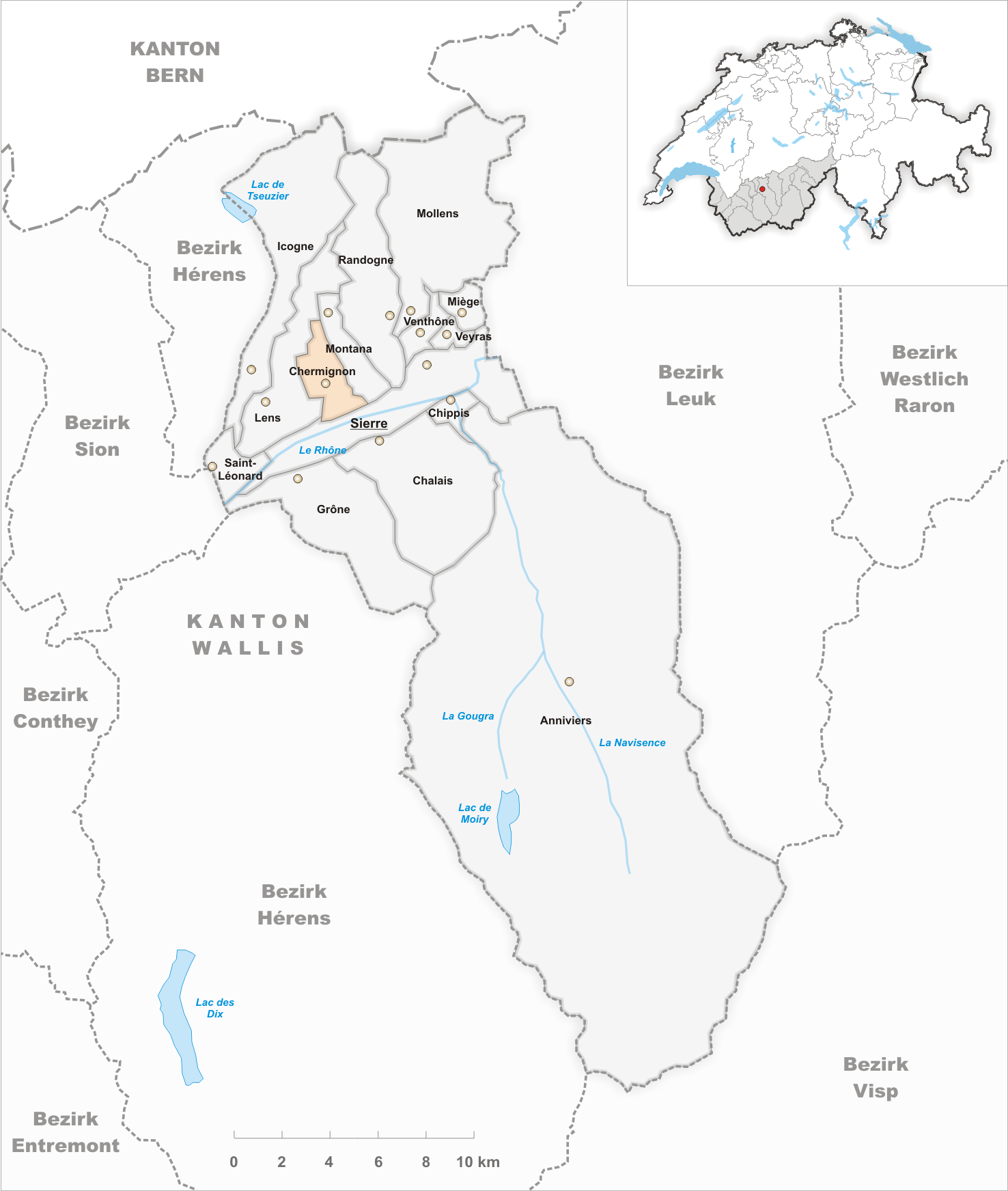 Municipality Chermignon